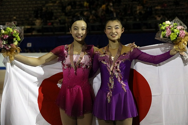 Marin Honda and Kaori Sakamoto at the 2017 World Junior Figure Skating Championships.